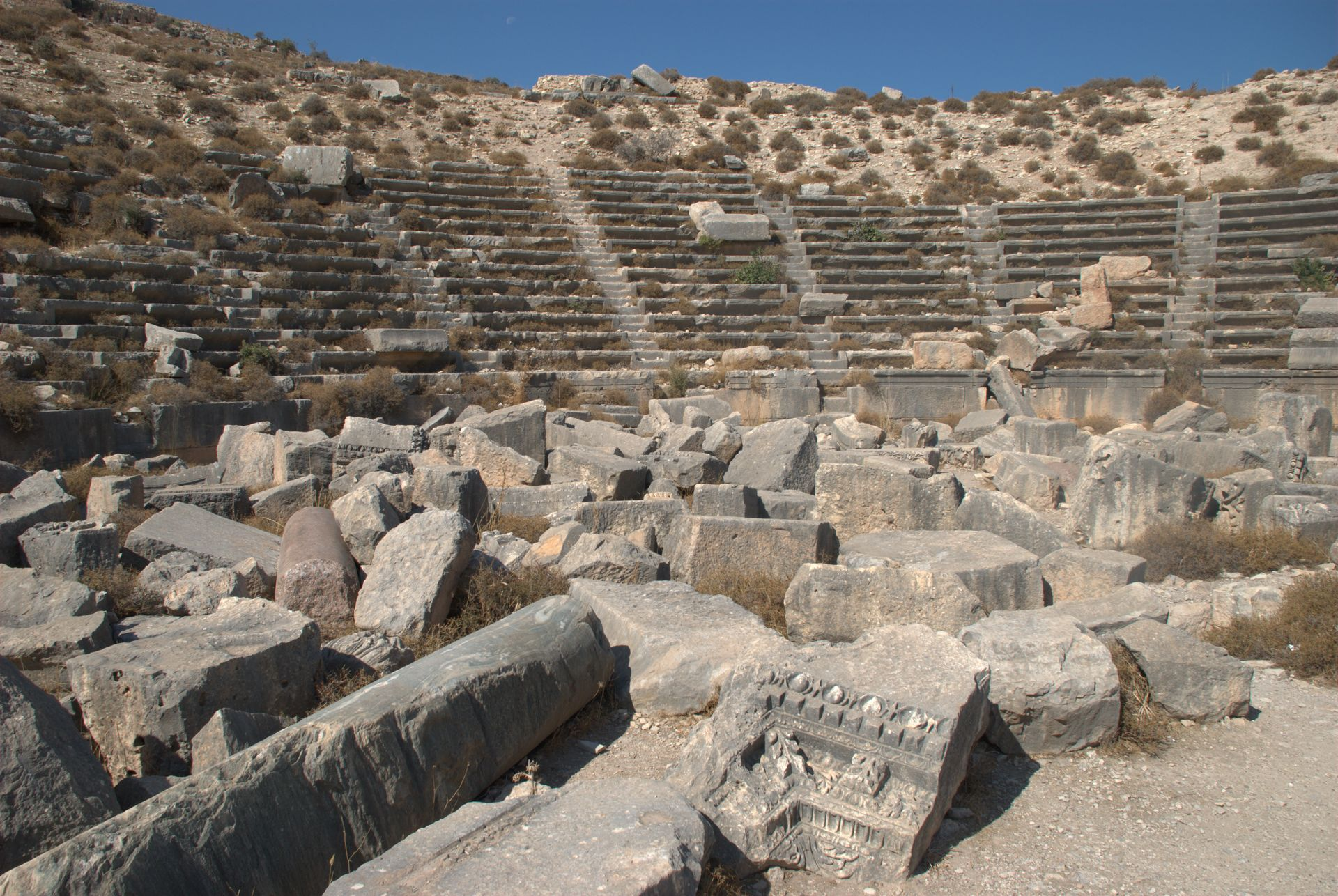 Roman theatre in Kyrrhos, Nebi Huri, Syria